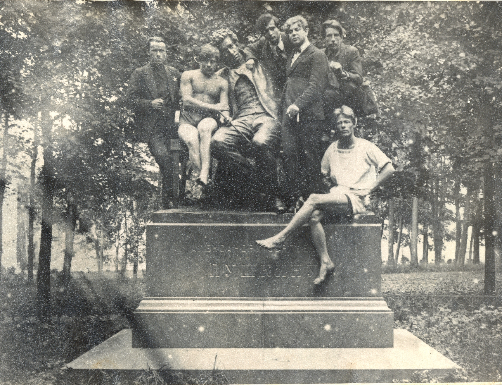 Tsarskoye Selo (Russia), S.A. Yesenin and V.I. Erlich with students of Agricultural Institute at the monument of Alexander Pushkin.